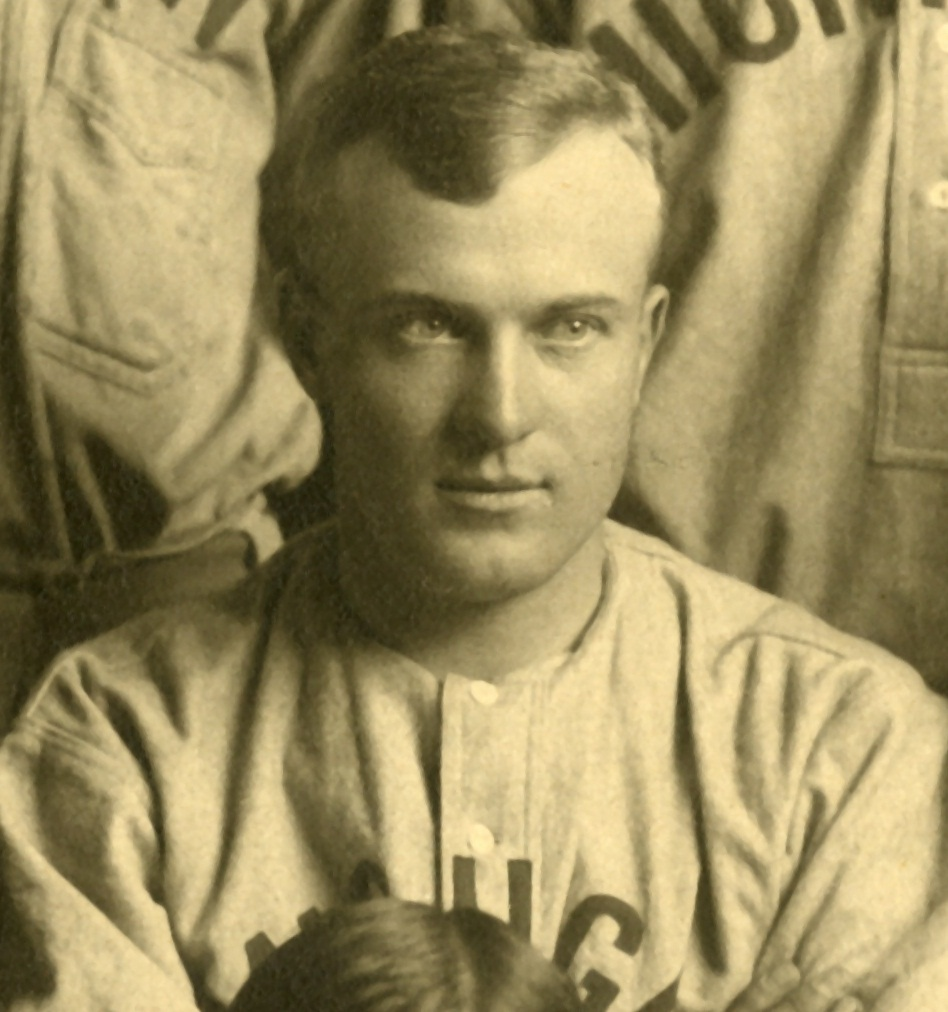 Photograph of Jack Enzenroth, captain of the 1910 University of Michigan baseball team, cropped from 1910 team portrait